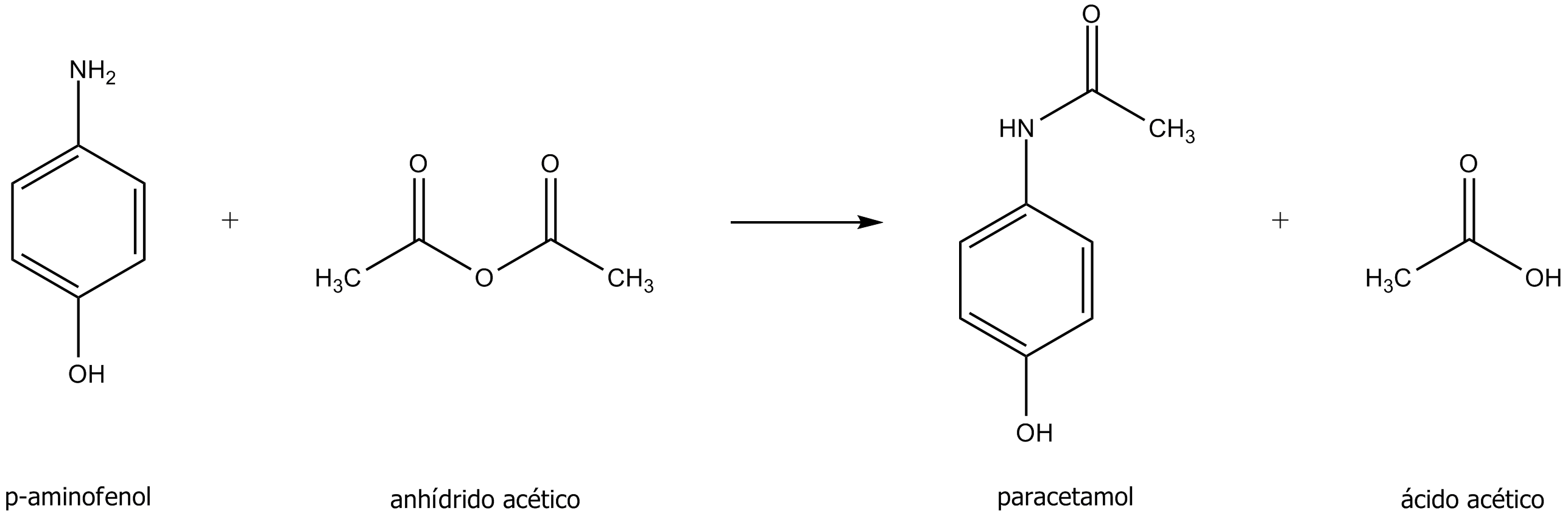 Based on file Parasynthese.png (spanish translation - own work). Source: Bild:Parasynthese.png (uploaded by Benutzer:Owahl) Original description page (German Wikipedia): Beschreibung:Herstellung von Paracetamol Quelle:Ich selbst Fotograf oder Zeichner: Na ich Andere Versionen: nö Lizenzstatus: Public Domain